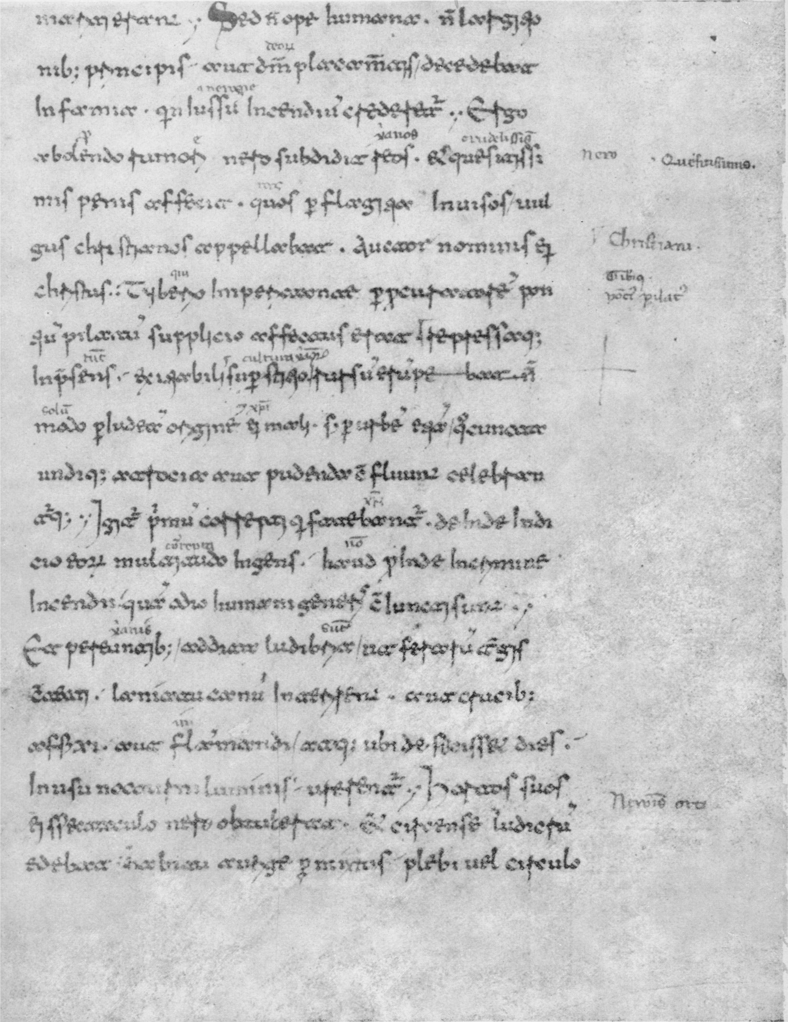 Codex Mediceus 68 II fol. 38 r: Cornelius Tacitus Annales 15:44.